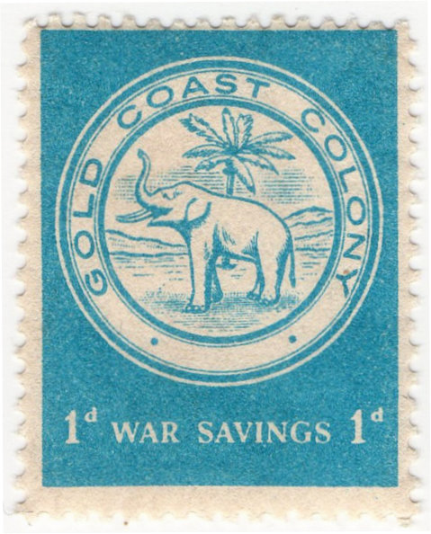 Gold Coast 1d 1943 war savings stamp. Script GV watermark.